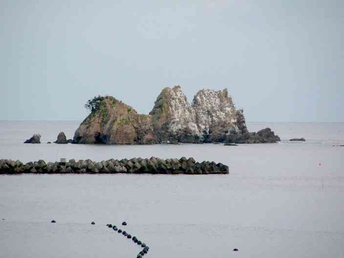 Santousan is a shore reef at Kumano-nada, Daio-cho, Shima city, Mie prefecture Japan.